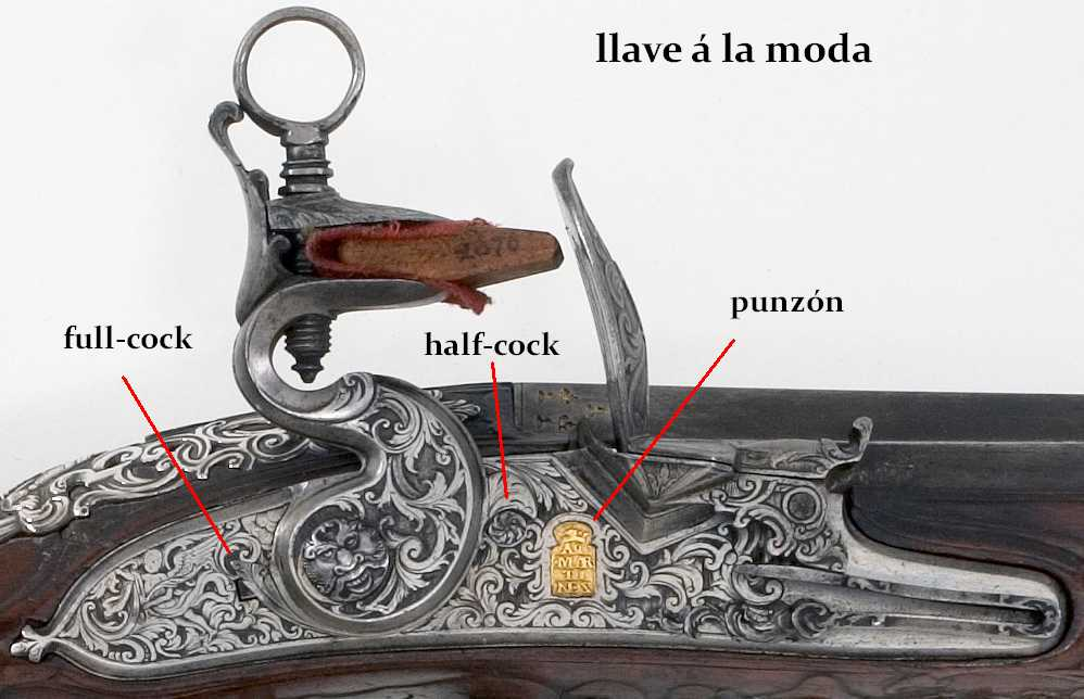 Llave a la moda miquelet lock showing sear & punzón locations Note: For documentary purposes the original description has been retained. Factual corrections and alternative descriptions are encouraged separately from the original description.snapplåsbössa, modalås - LRK 2876, lås